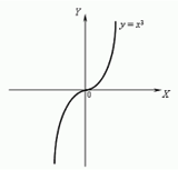 funksiya